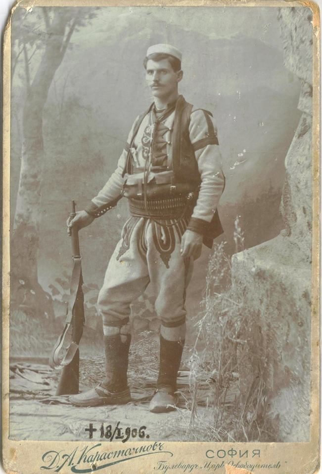 Petar Yurukov